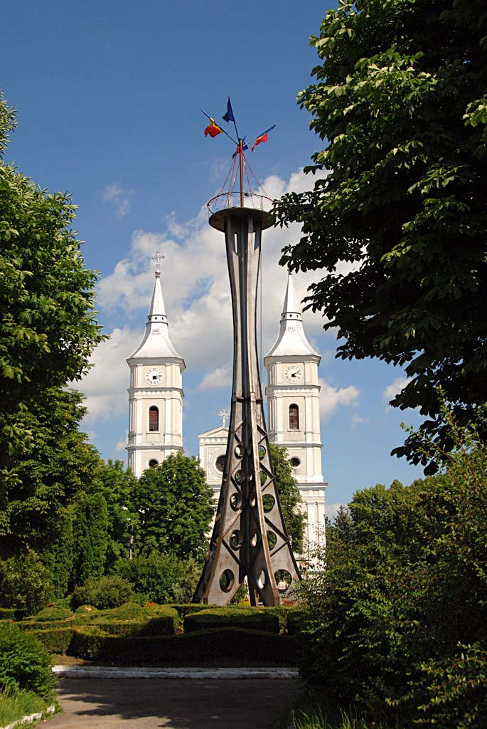 Năsăud - Tower and Church in Parc